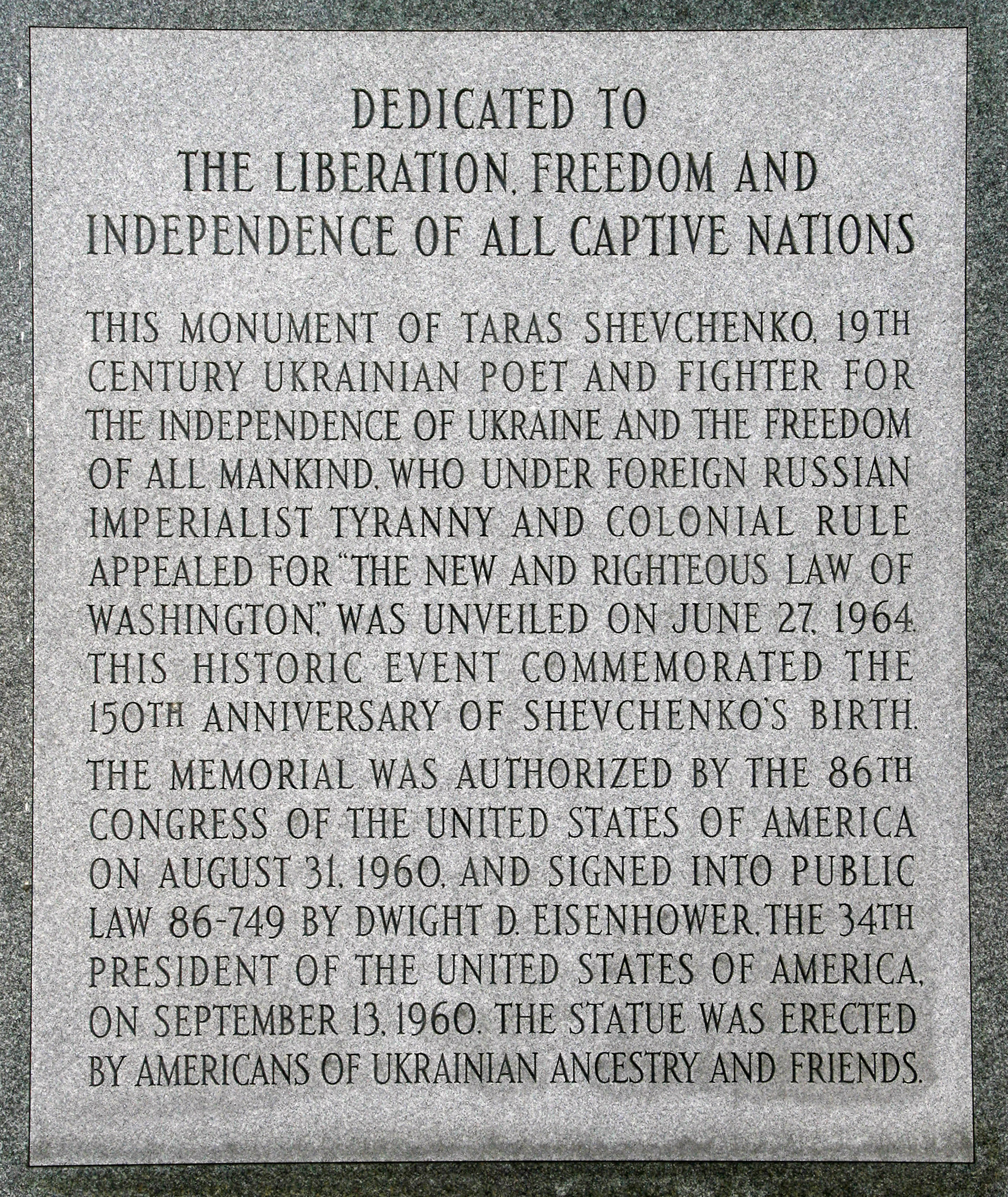 The Taras Shevchenko Memorial, located near the intersection of 22nd and P Streets, NW, in the Dupont Circle neighborhood of Washington, D.C. The statue was sculpted by Leo Mol, and the stonework was created by the Jones Brothers Company. A relief depicting Prometheus is located beside the statue. The memorial was authorized by Congress on September 13, 1960, and dedicated on June 27, 1964. It is administered by the National Park Service, a federal agency of the United States Department of the Interior.